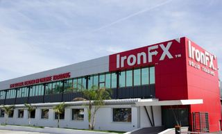 Headquarters of IronFX Global in Cyprus